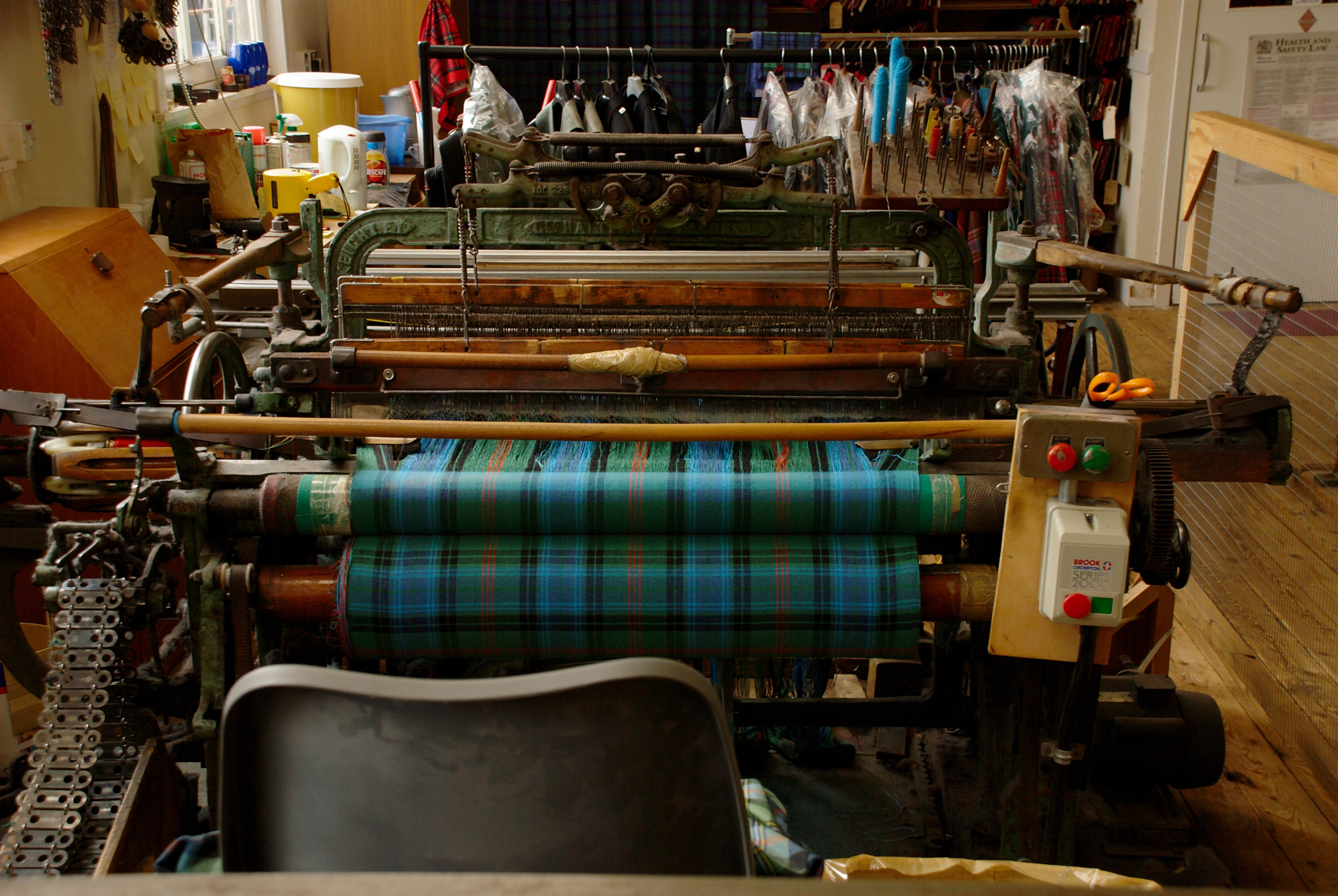 Loom weaving Tartan at the premises of Lochcarron Weaving, in Lochcarron, Western Scotland. An electrically operated George Hattersley and Son Loom.